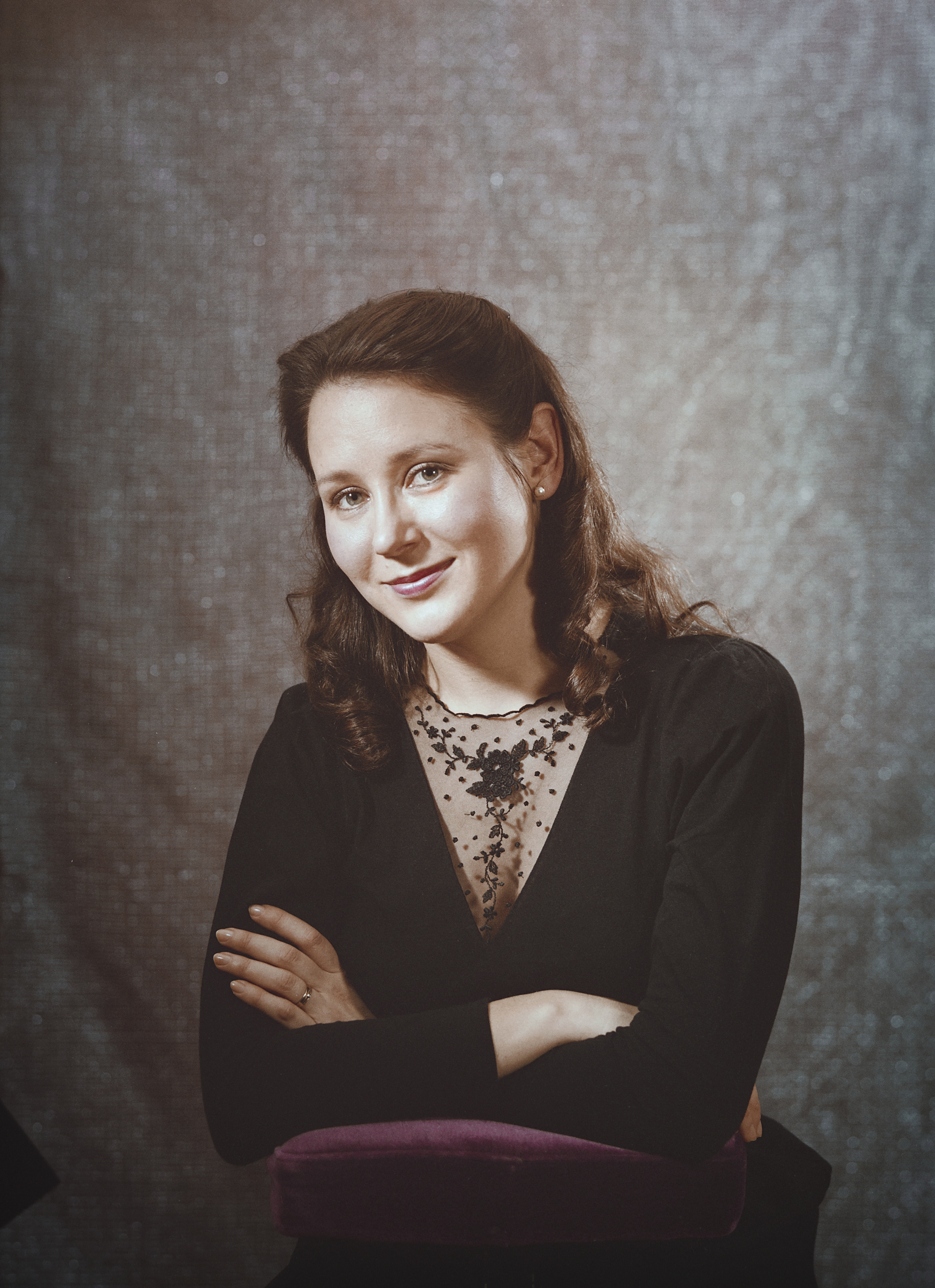 Photograph of the Finnish opera vocalist Monica Groop (1958–).